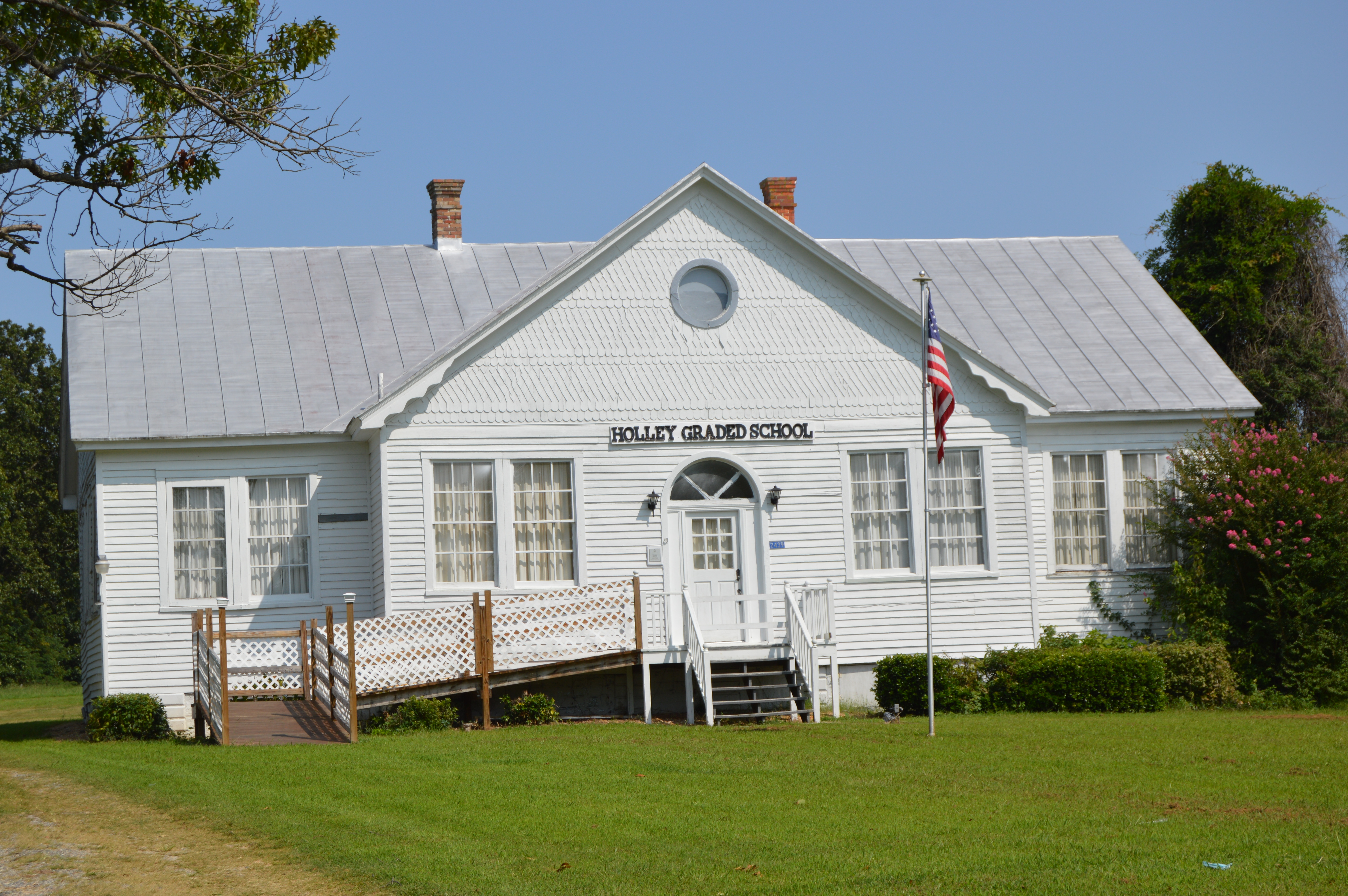 Front of the former Holley Graded School, located on U.S. Route 360 at Lottsburg in Northumberland County, Virginia, United States. Built in 1914, it is listed on the National Register of Historic Places.